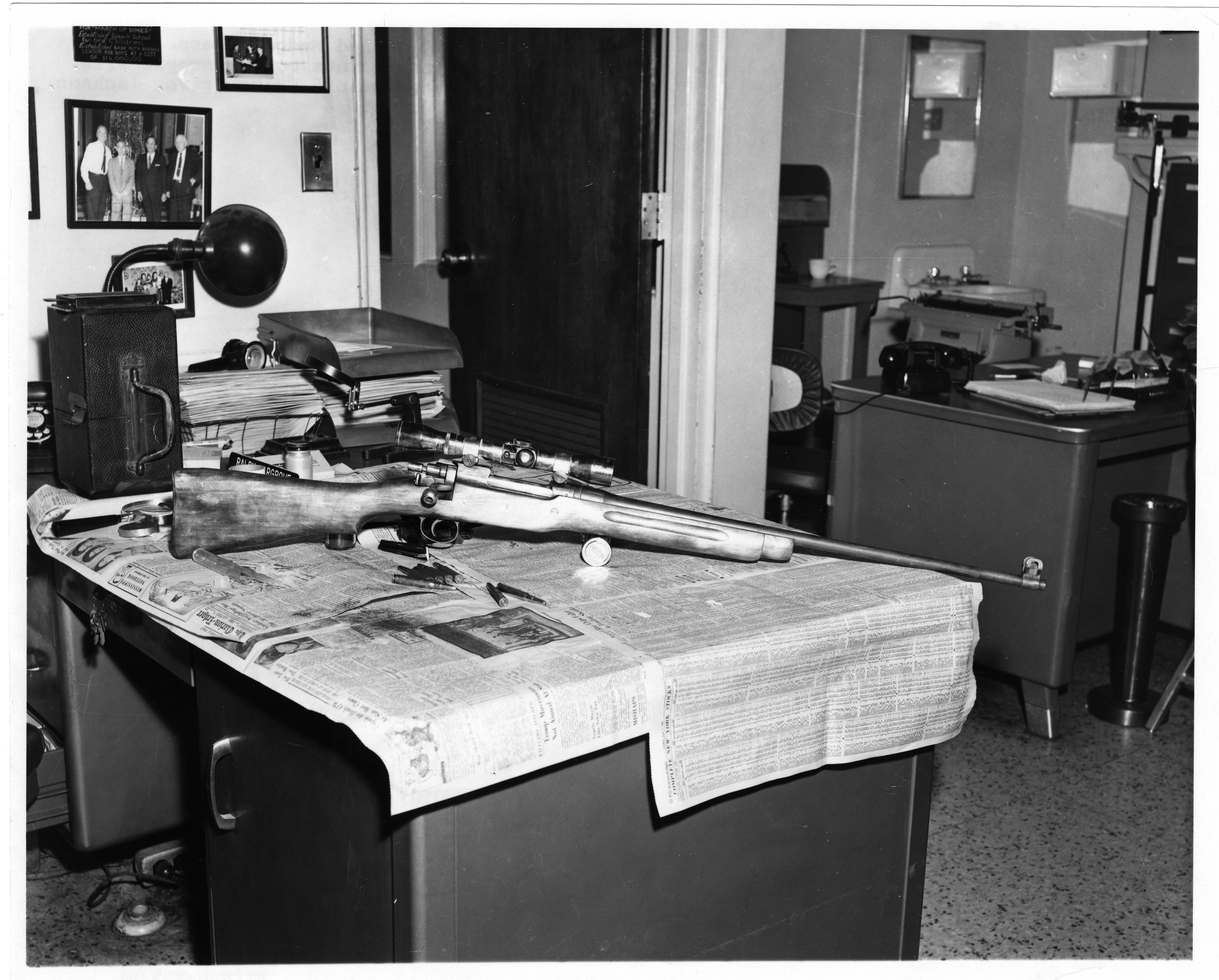 Collection: Hargrove (Ralph) Photograph Collection Call number: PI/2010.0005 System ID: 105043. Link to the catalog 6.13, 1963. Rifle that killed Medgar Evers. Located latent fingerprints on telescopic sight. Medgar was shot off Delta Drive, Jackson, Miss. Please see our profile page for information on ordering. Scanned as tiff in 2011/03/10 by MDAH. Credit: Courtesy of the Mississippi Department of Archives and History